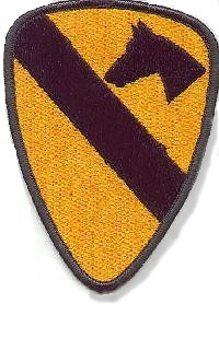 1st Cav Insignia - US Army website Slika:USArmy First Cav Patch.jpg